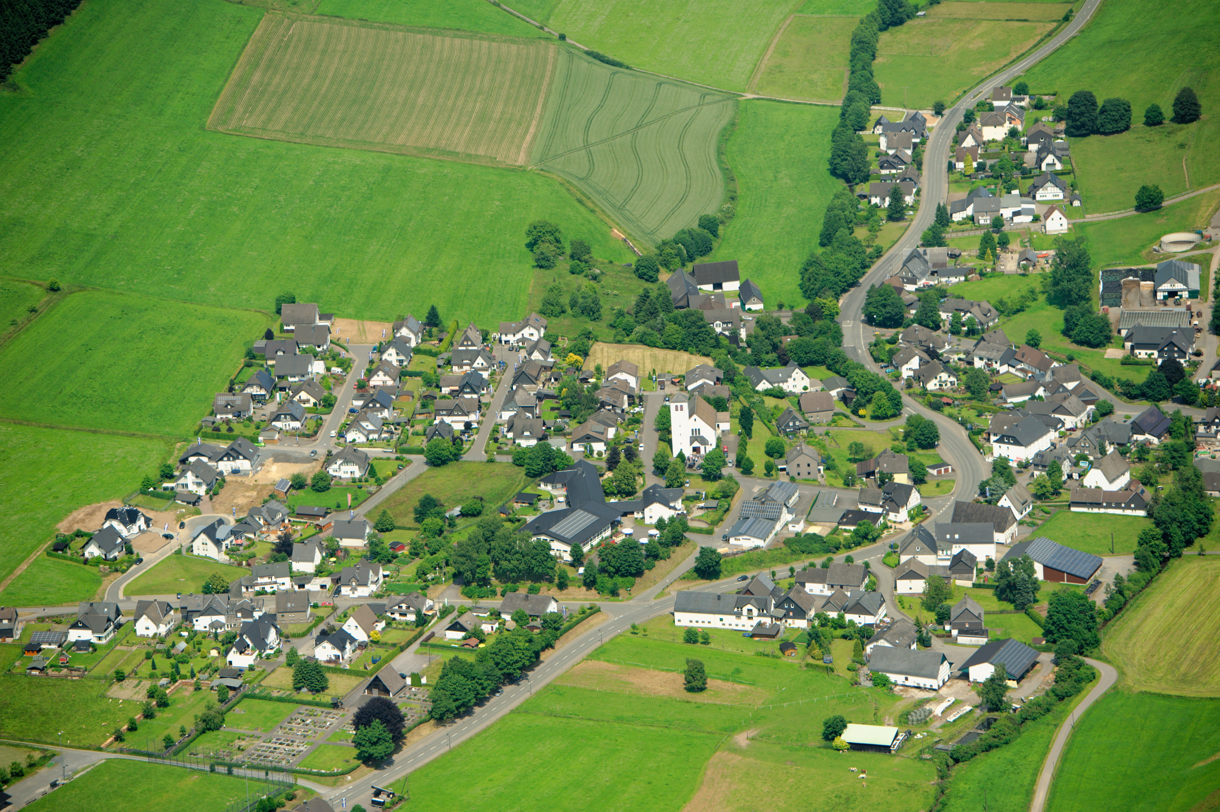 Fotoflug Sauerland-Ost – Eslohe-Niedersalwey von Westen The making of this document was supported by the Community-Budget of Wikimedia Germany.